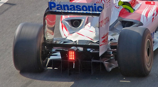 The rear of the TF109 1/200s - F/13 - 180mm - ISO200